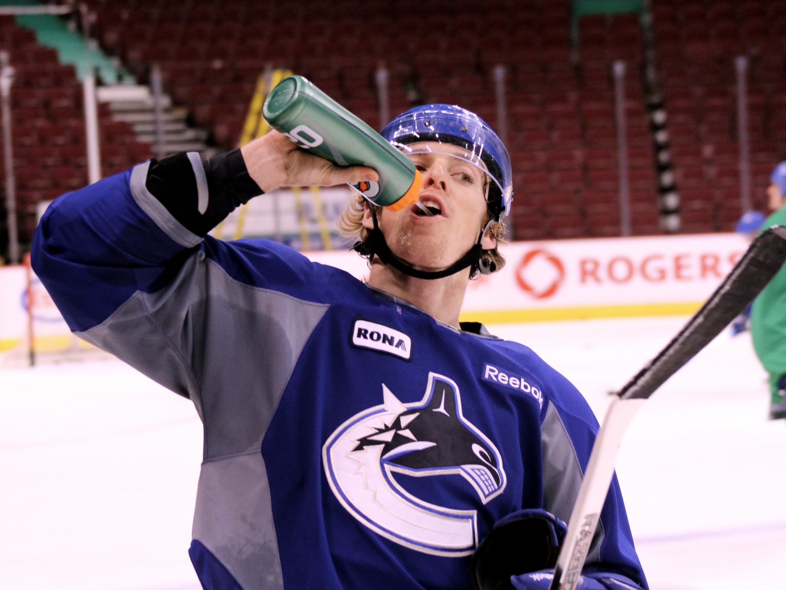 Vancouver Canucks forward David Booth drinking water during a practice on March 9, 2012.